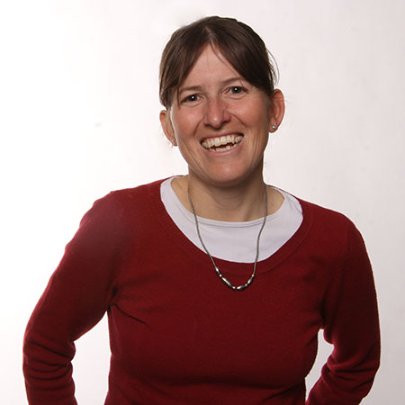 A photograph of Prof. Katia Bertoldi